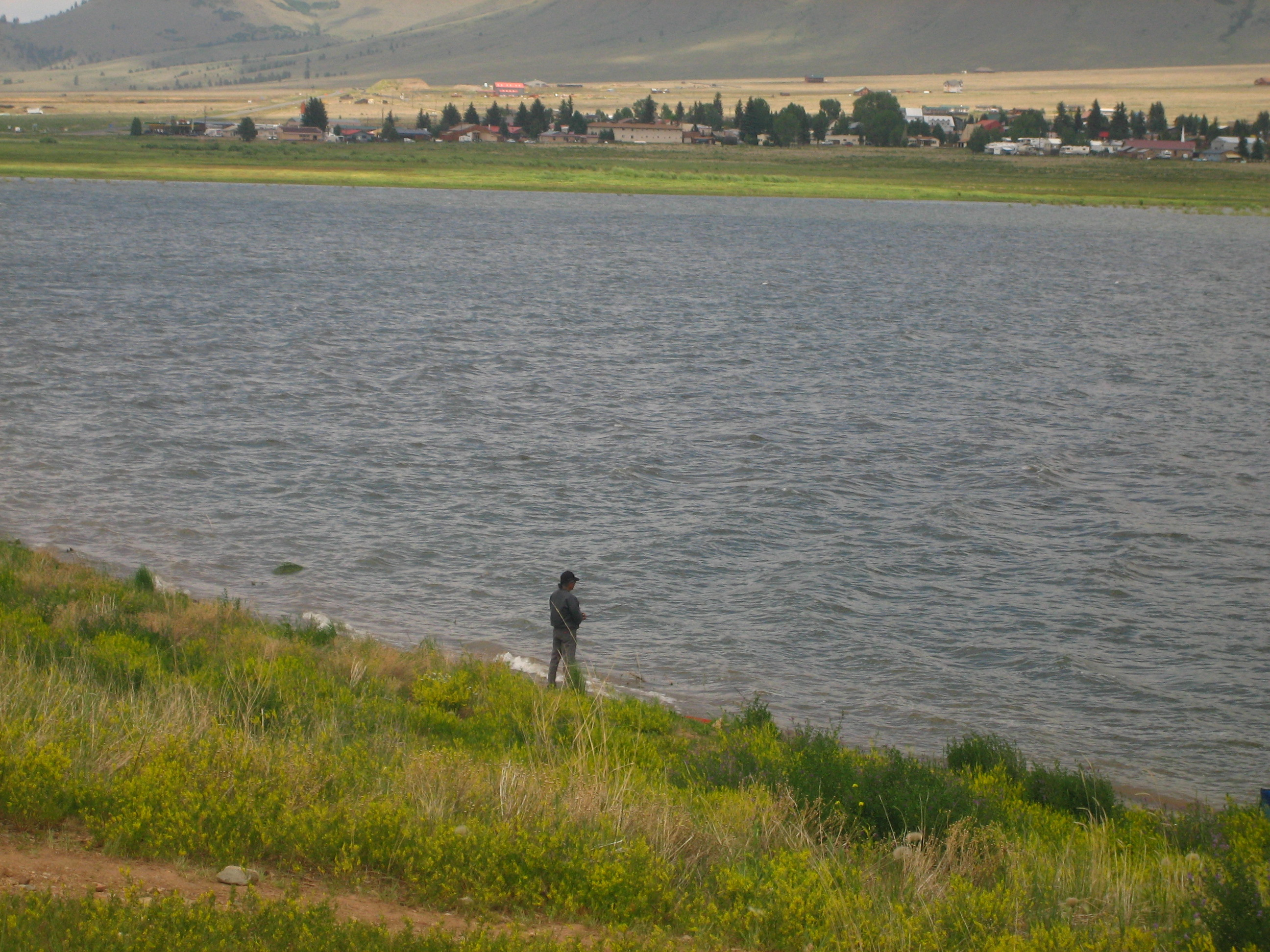 I took photo in July 2008.